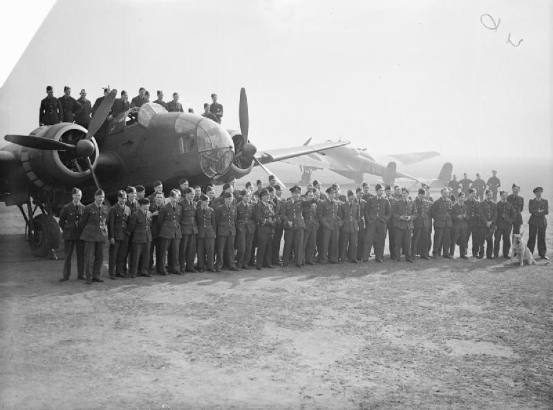 Royal Air Force 1939-1945- Bomber Command Crews and Hampden aircraft of No 50 Squadron at Waddington after the raid on shipping off Bergen, 9 April 1940.